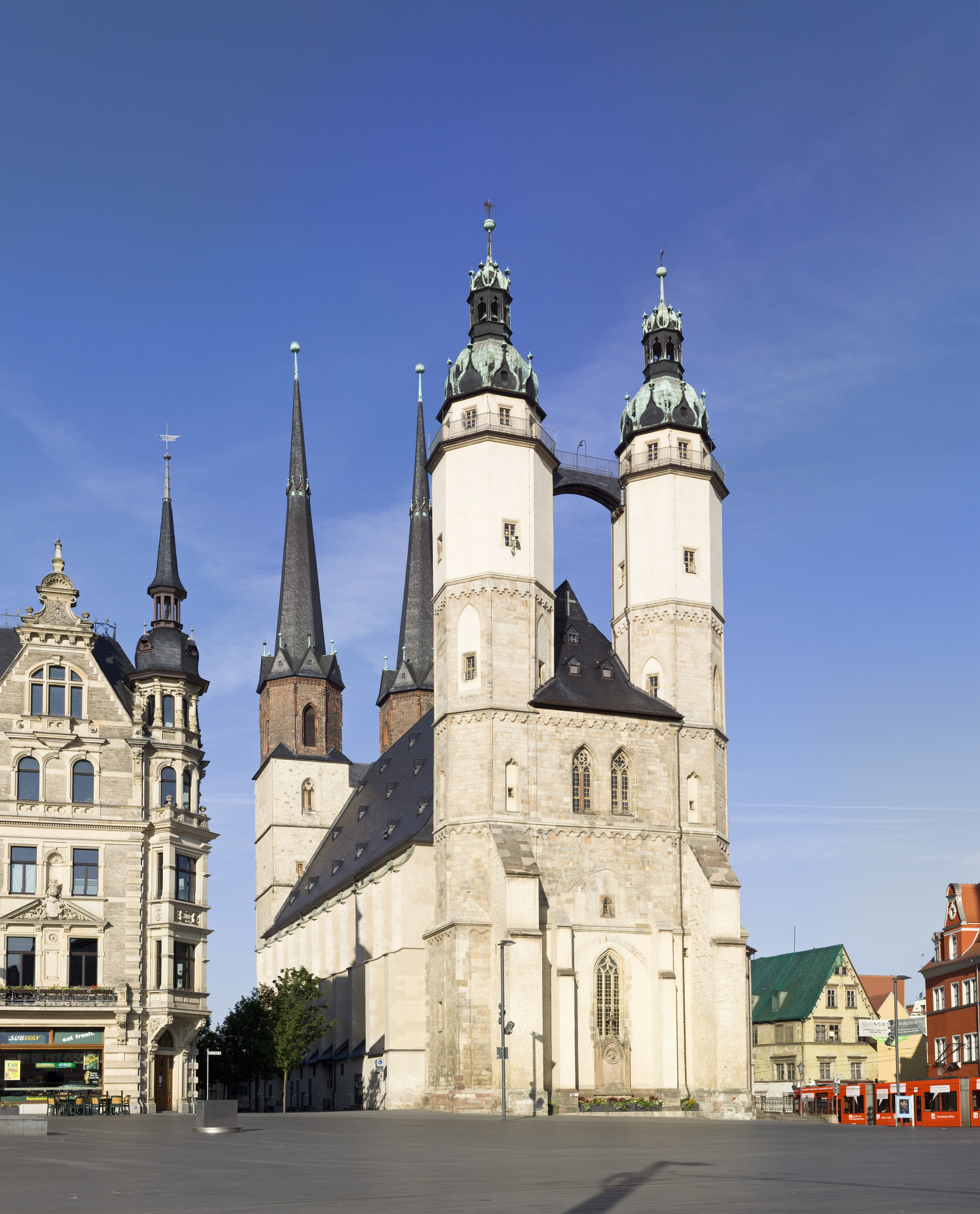 Marienkirche in Halle/Saale, seen from East.